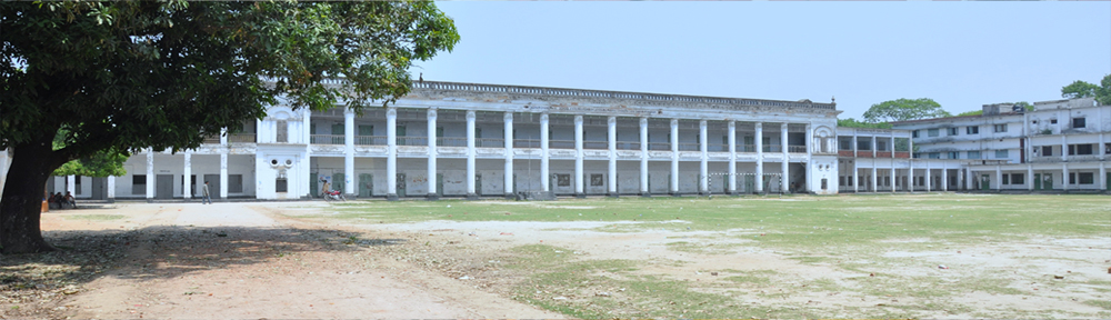 Savar Adhar Chandra Model High School established in 1913 , this is one of the oldest educational institute in Bangladesh